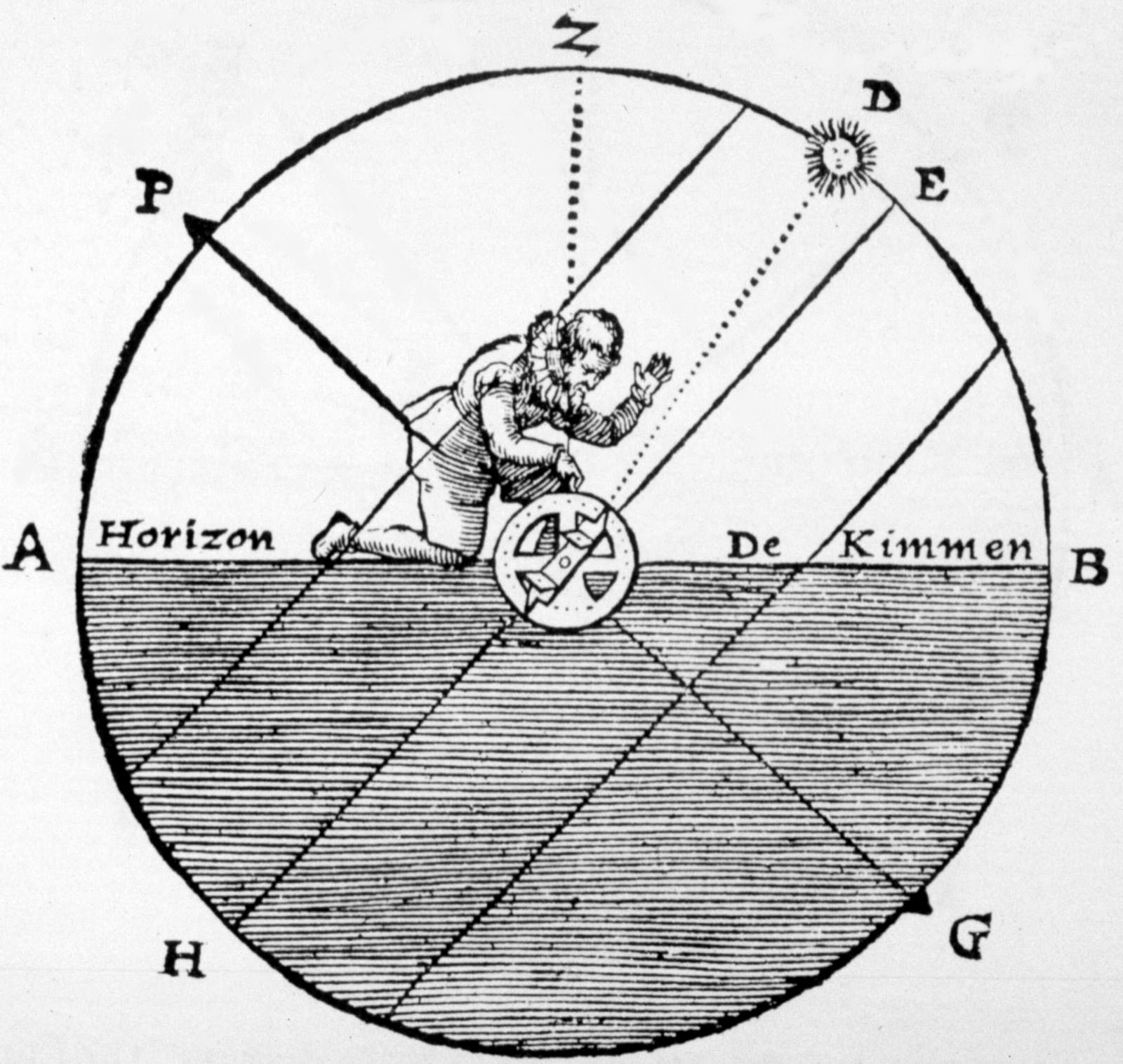 Mariner's astrolabe